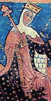 Urraca of Castile